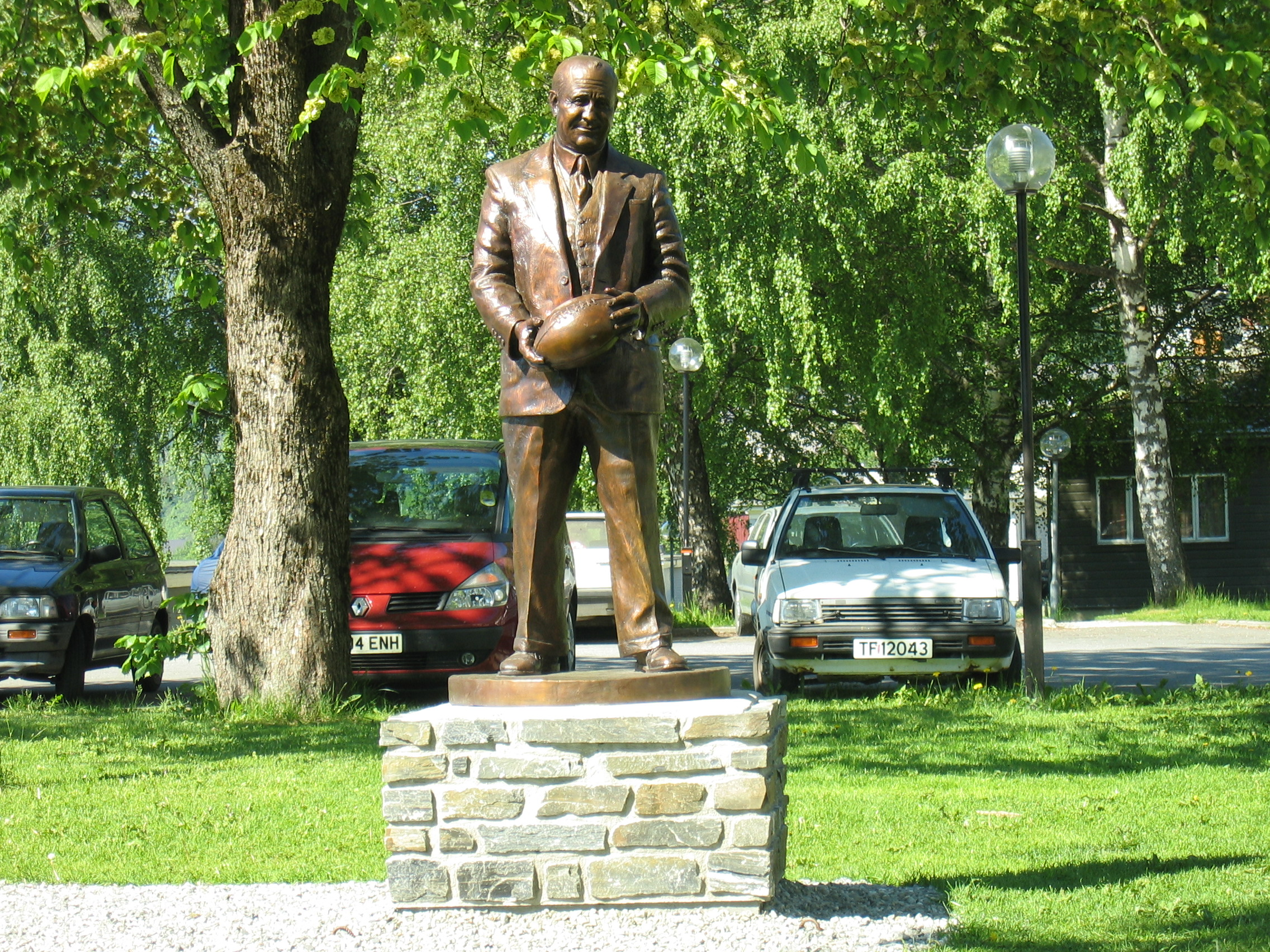 Bronze sculpture by Jerry McKenna, revealed in Voss, Norway, March 31, 2006, the 75th. anniversary of Rockne's death.